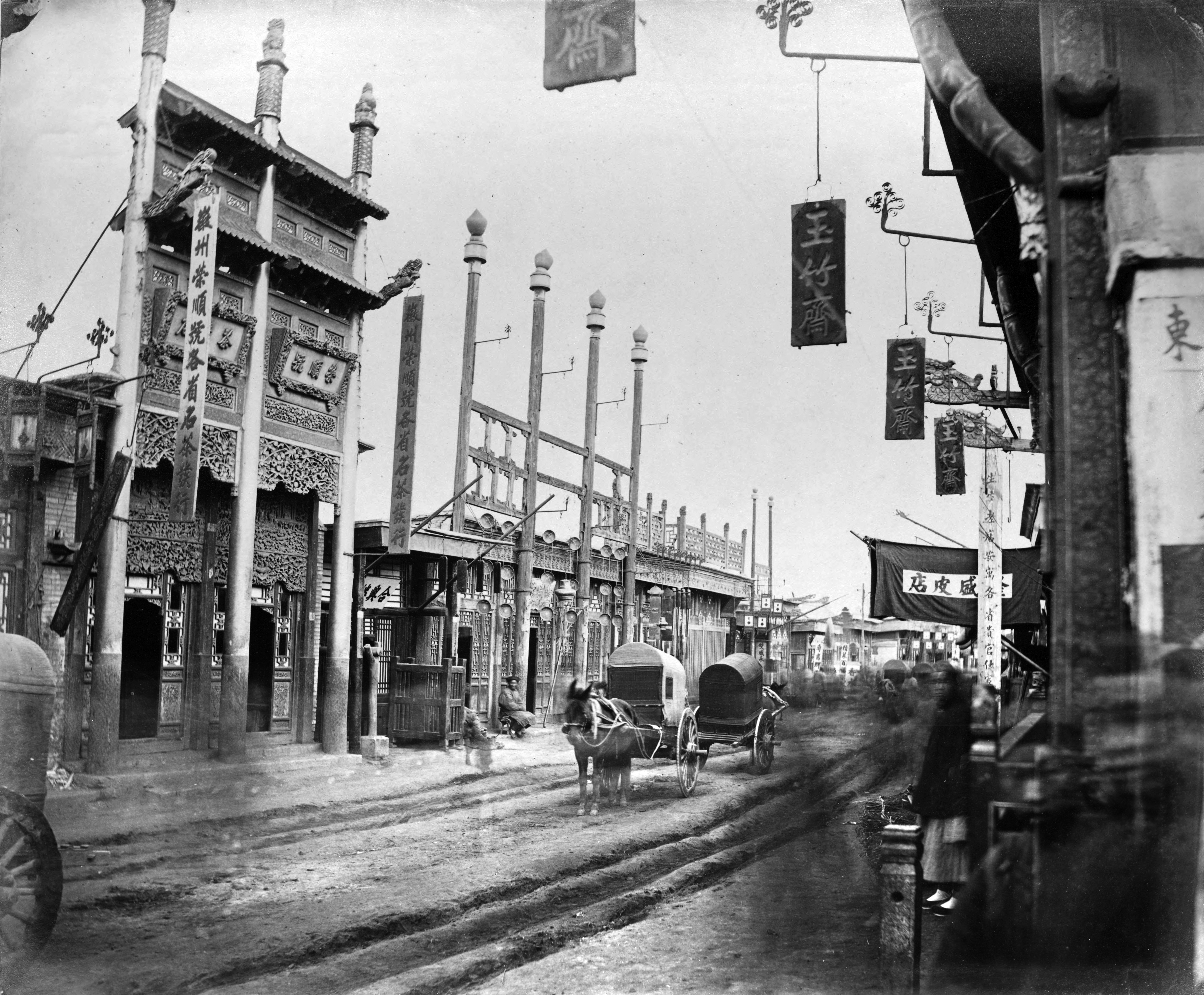 Photograph in Album of photographs of Peking and its environs.